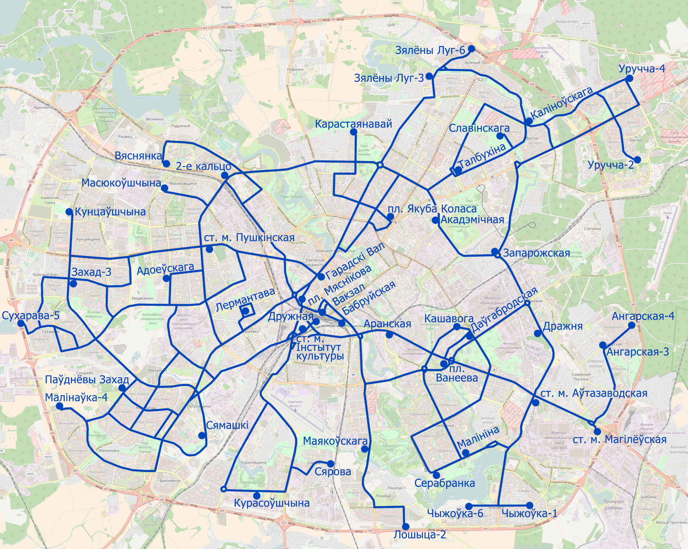 Minsk trolleybus network in 2018